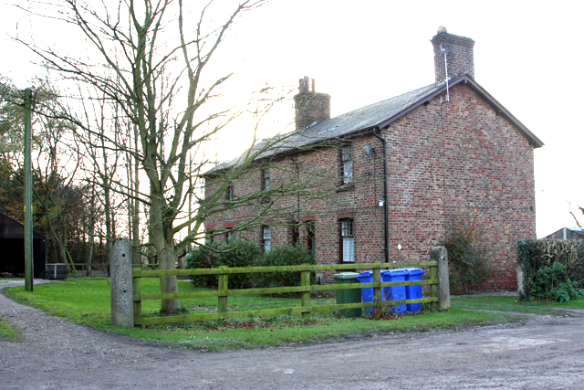 Station Cottages, Southburn, East Riding of Yorkshire, England.There is little evidence of the old railway line.